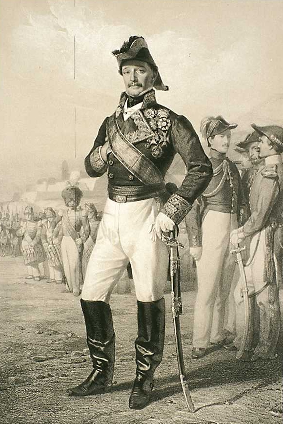 Litography of Fernándo Fernández de Córdova, 2nd Marquis of Mendigorría